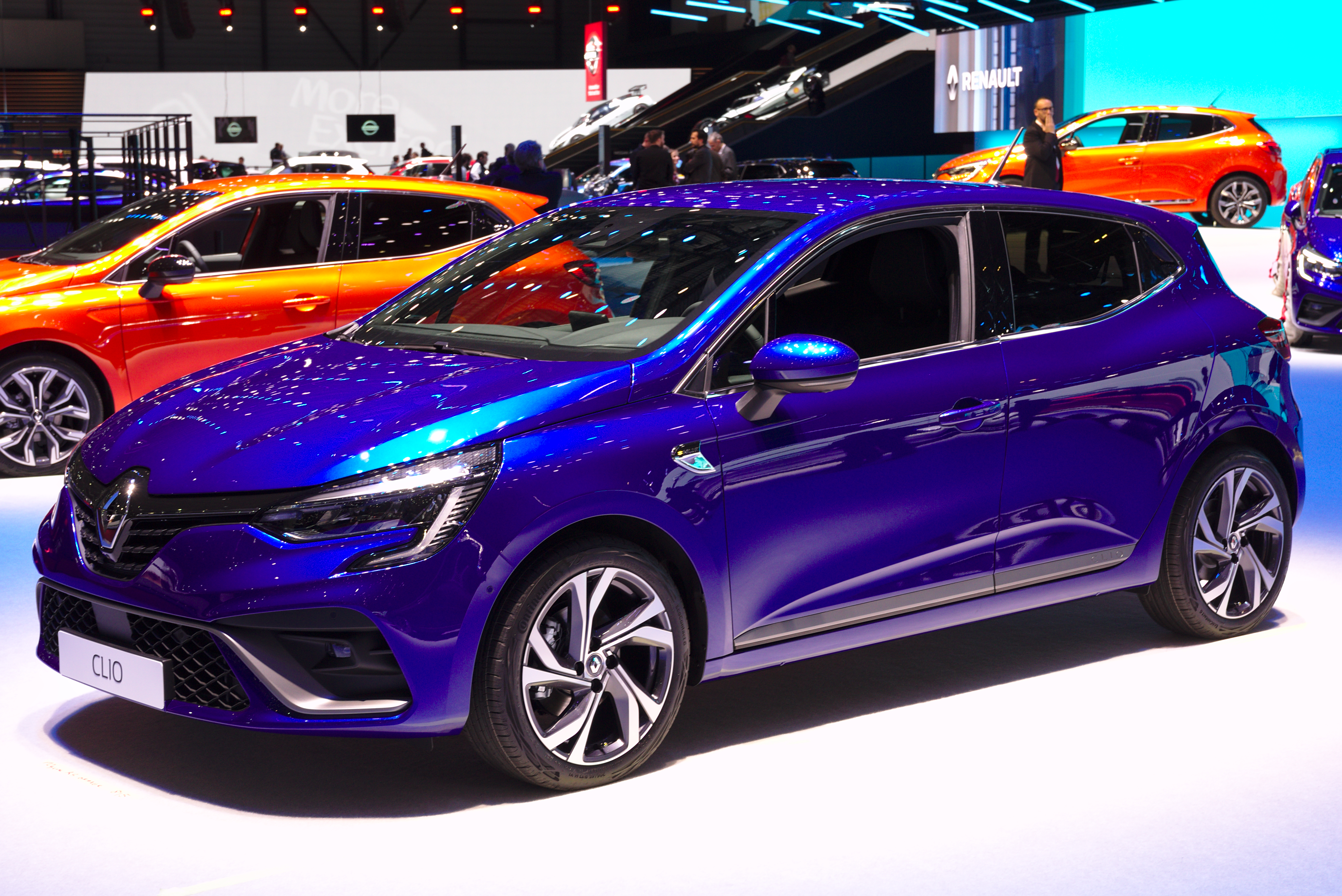 Renault Clio V at Geneva Motor Show 2019